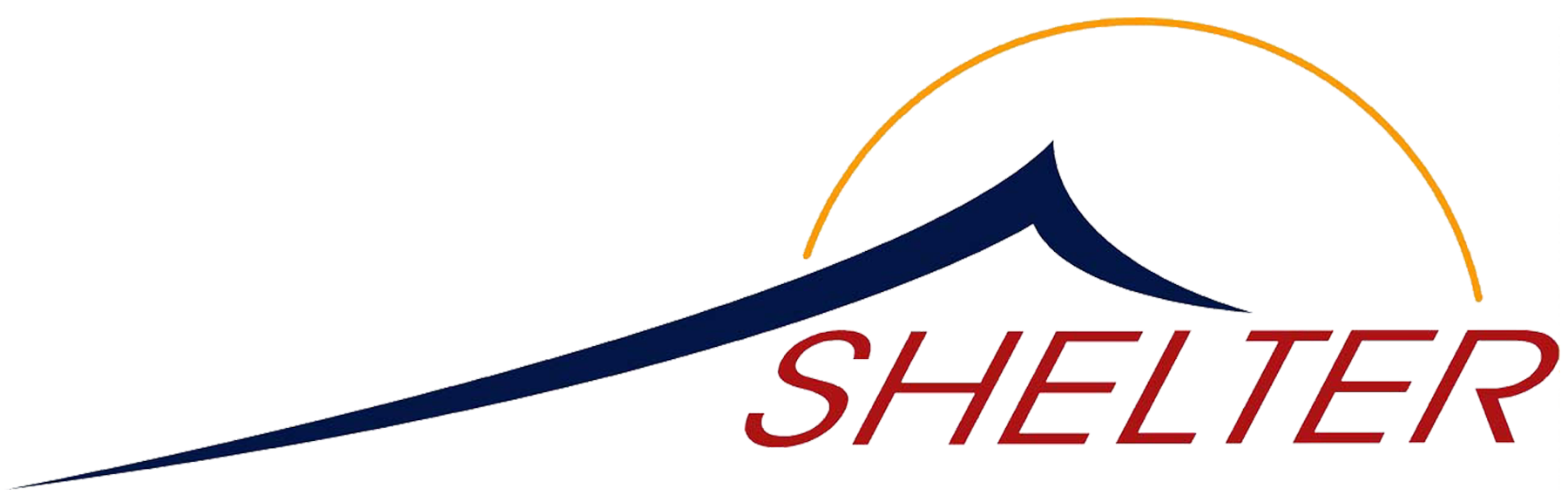 Logo "Shelter Now International"